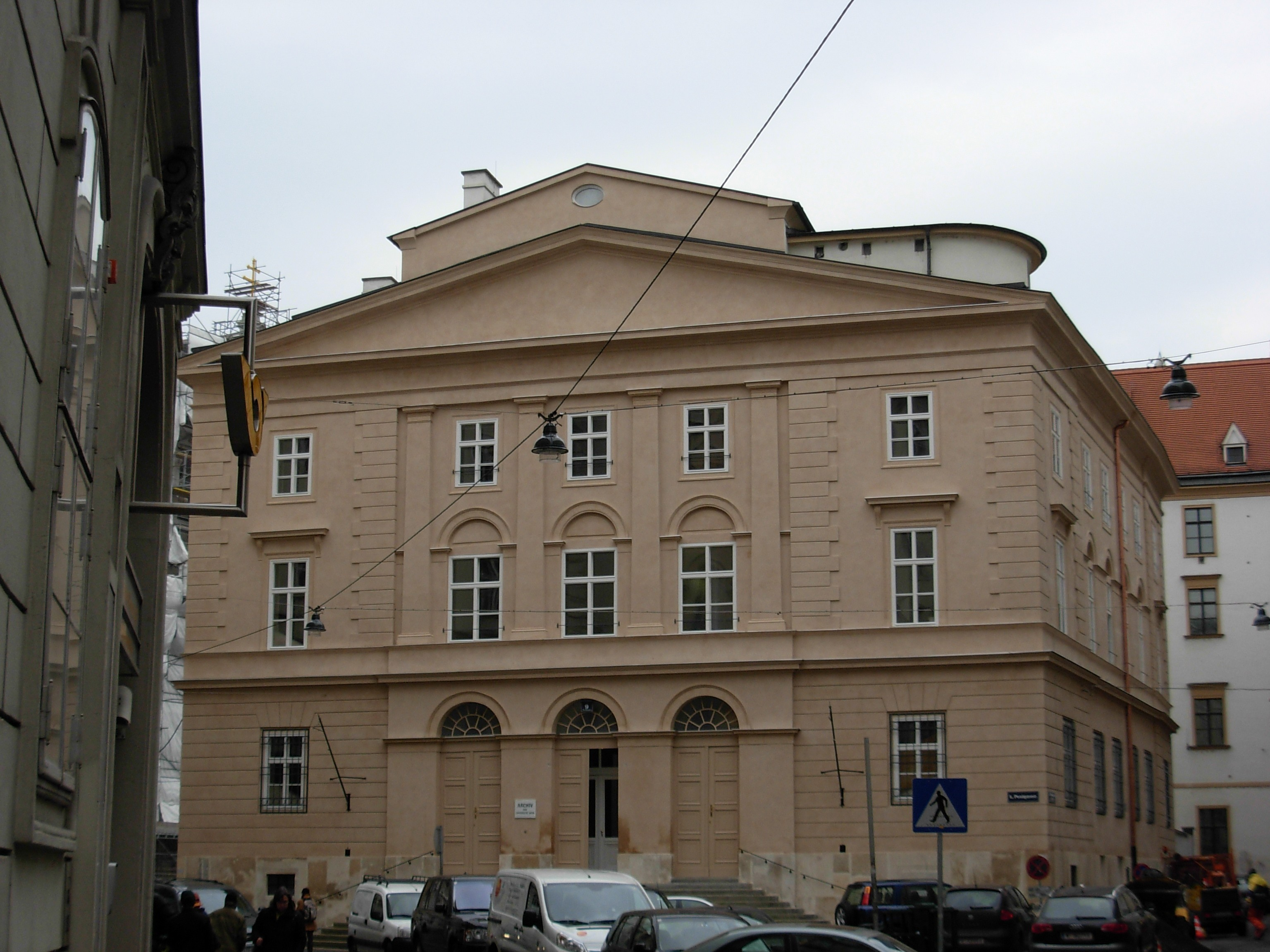 Building containing the archives of the University of Vienna after restauration